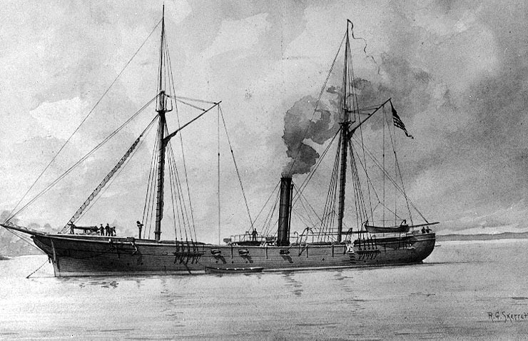 USS Cayuga (1862-1865), a 691-ton Unadilla class screw steam gunboat. Caption USS Cayuga, by R.G. Skerrett, circa 1900